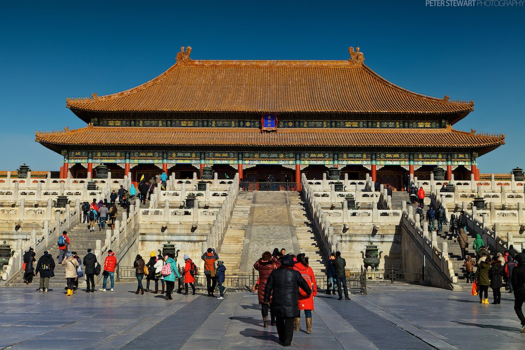 The Forbidden City